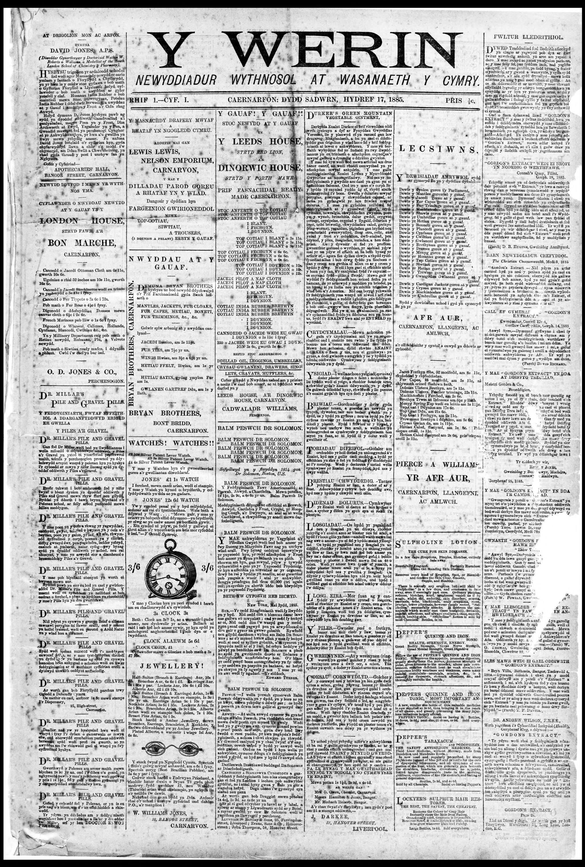 Front page of the earliest surviving copy of the Welsh newspaper Y WerinCymraeg: Tudalen flaen y copi cynharaf sydd yn bodoli o'r papur newydd Cymraeg Y Werin